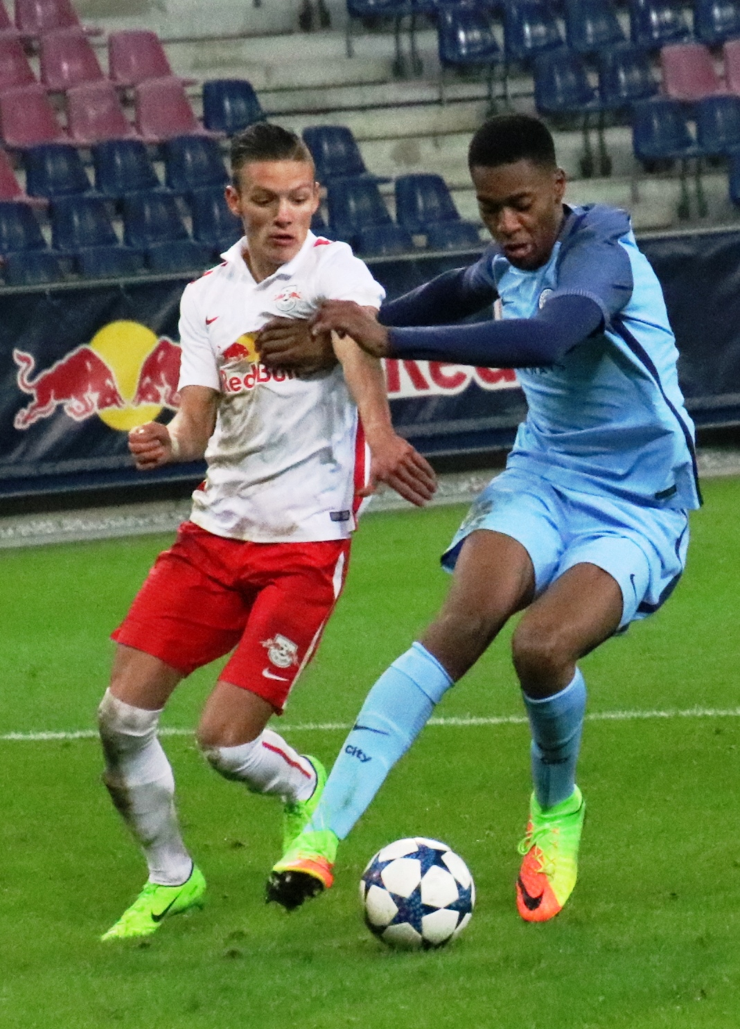 Uefa Youth league Play off match